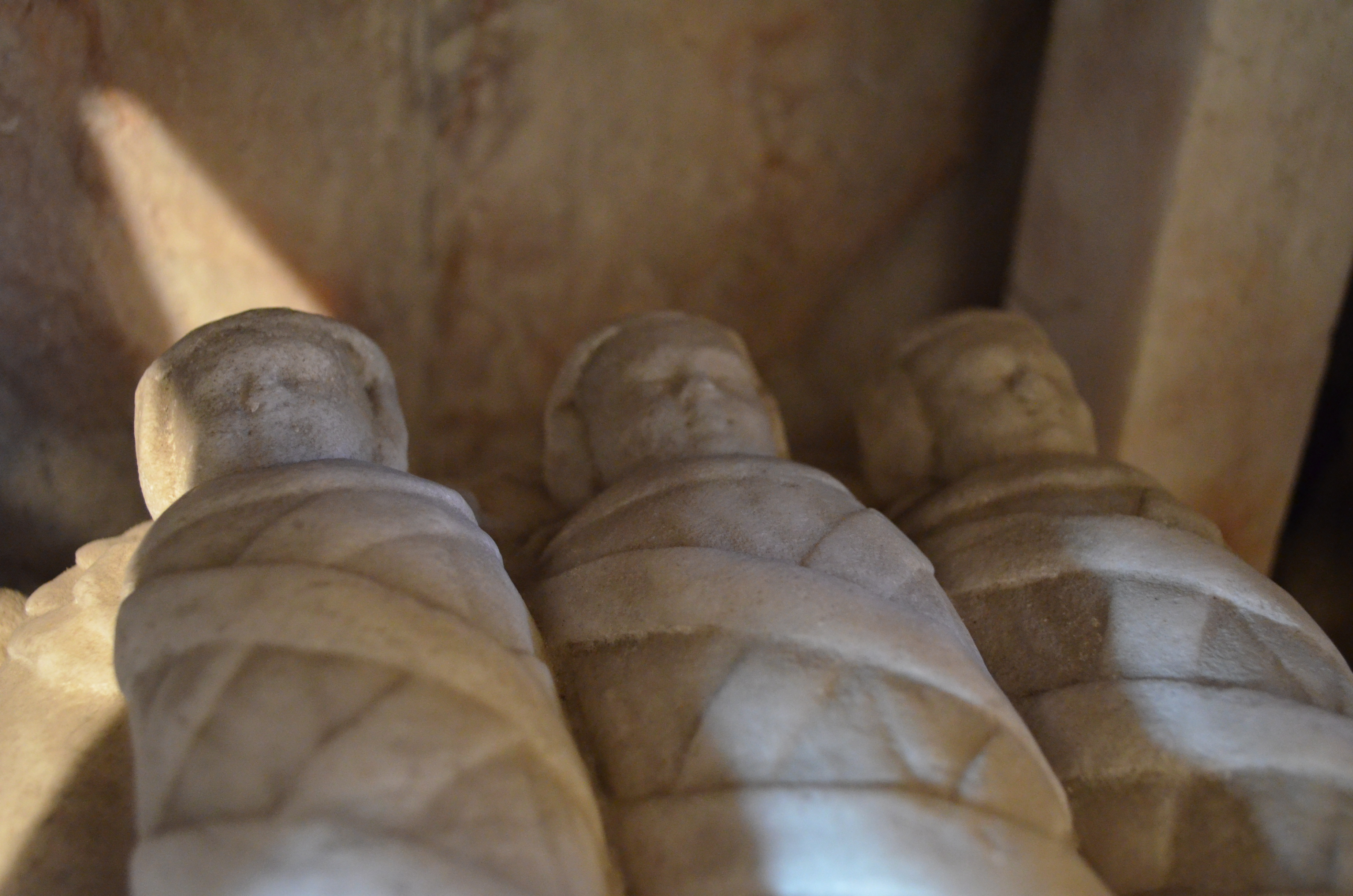 A monument to Thomas Selwyn 1546-1613, and his wife Elizabeth (Goring) of Friston Place. His parents were Thomas Selwyn and Marjorie Adam. The monument shows him and his wife kneeling at a prayer desk, beneath which are three chrisom swaddled babies, all boys. Below are his six daughters as weepers facing to the right (north). They are Mary, Elizabeth, Alice, Dorothy, Anne and Beatrix. The monument was moved to its current position in the north transept in the mid 19th century, along with a monument to Sir Francis Selwyn and his son and heir William Thomas who was last of the family.